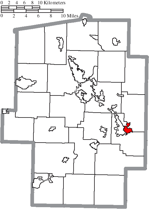 Map of the municipal and township boundaries of Tuscarawas County, Ohio, United States, as of the 2000 census, with the location of the village of Dennison highlighted. Township borders are shown only in unincorporated areas in order to differentiate incorporated and unincorporated areas more clearly.